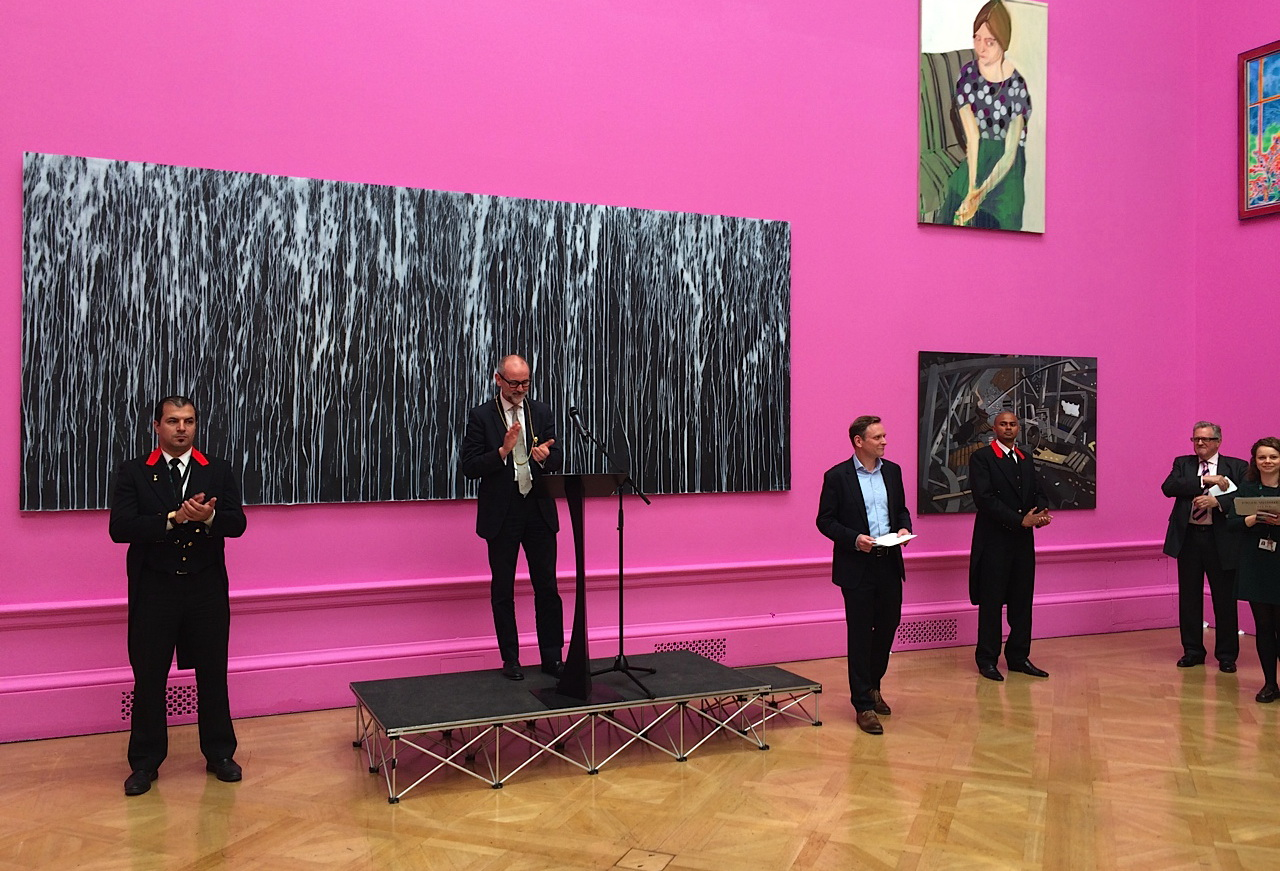 Opening speech by Christopher Le Brun, president of the Royal Academy of Arts, on "Varnishing Day", the artists' opening of the RA Summer Exhibition 2015. The large painting is by Richard Long.